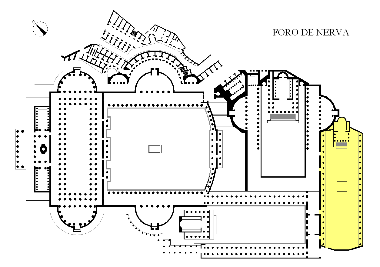 Forum of Nerva